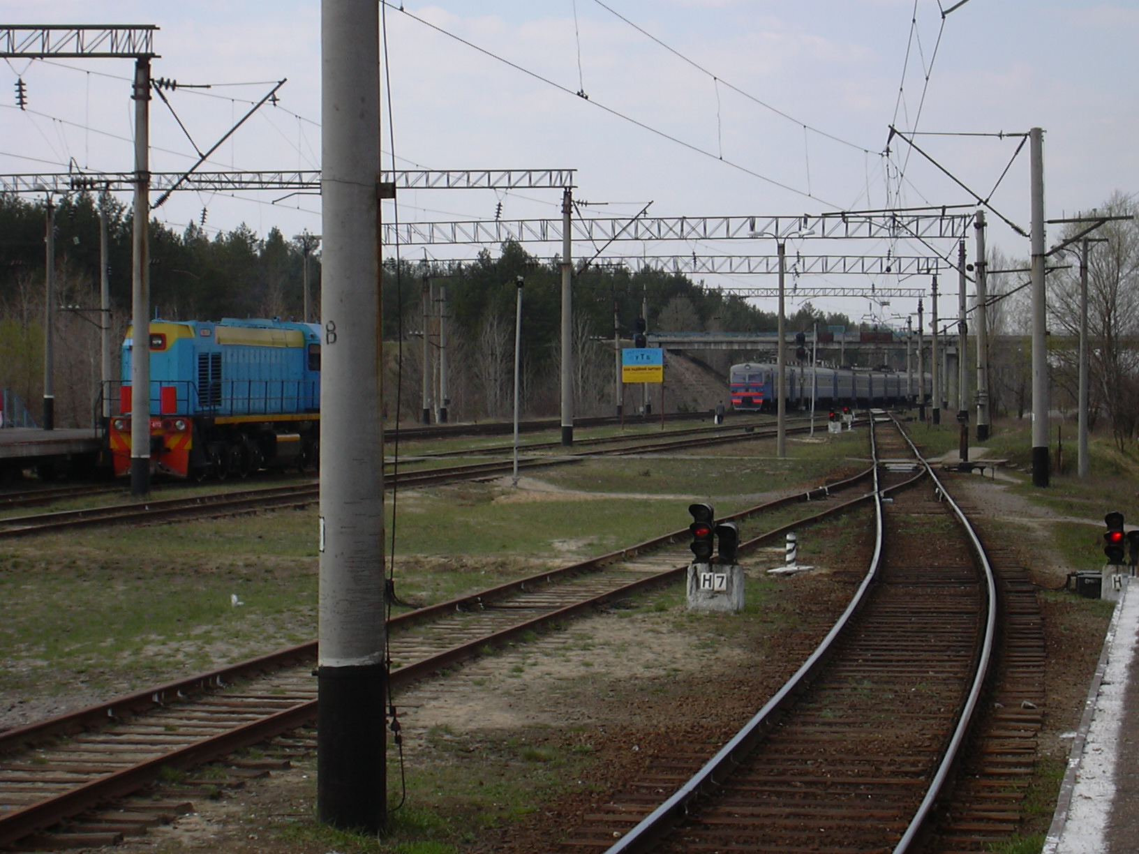 The railway lines at Slavutych station, which take commuters to jobs within the Zone of alienation around the Chernobyl disaster. Photo released into the public domain by the photographer, this uploader.